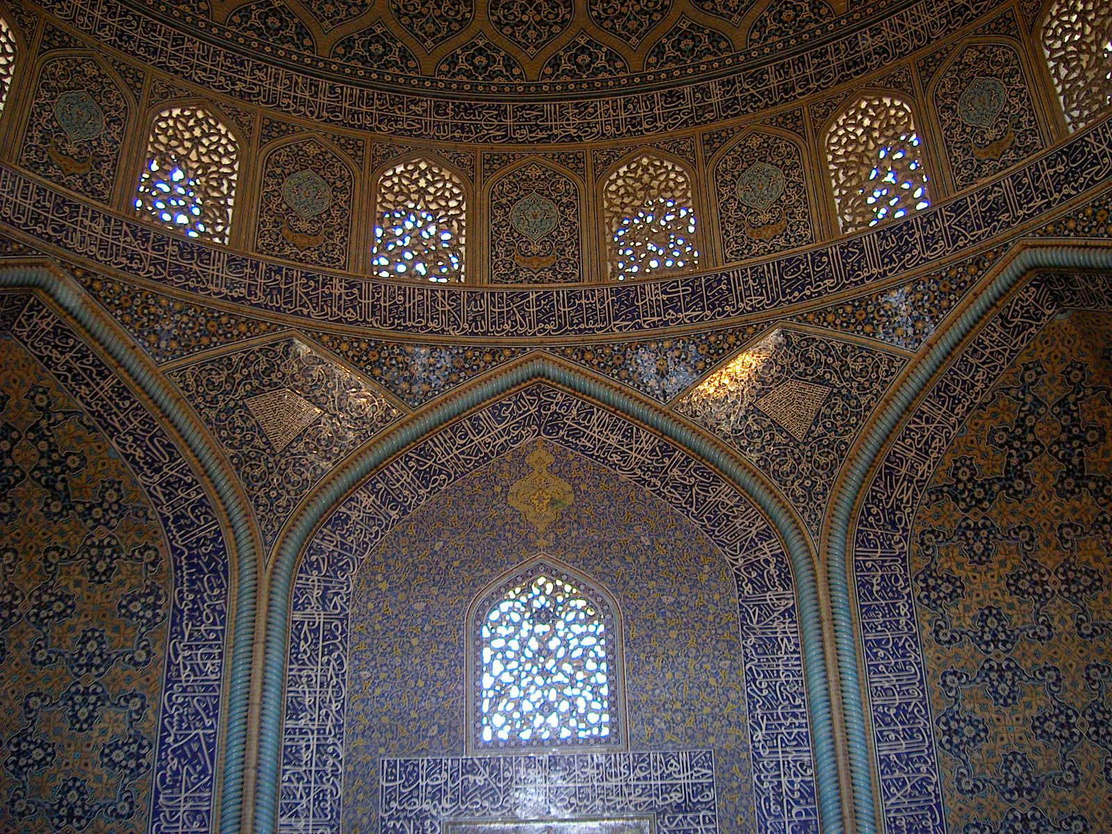 Sheikh Lotf Allah Mosque, interior